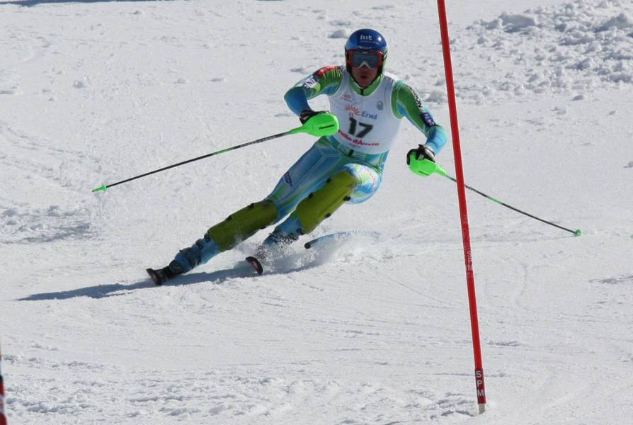 Andrej Jerman at the 2010 Winter Military World Games